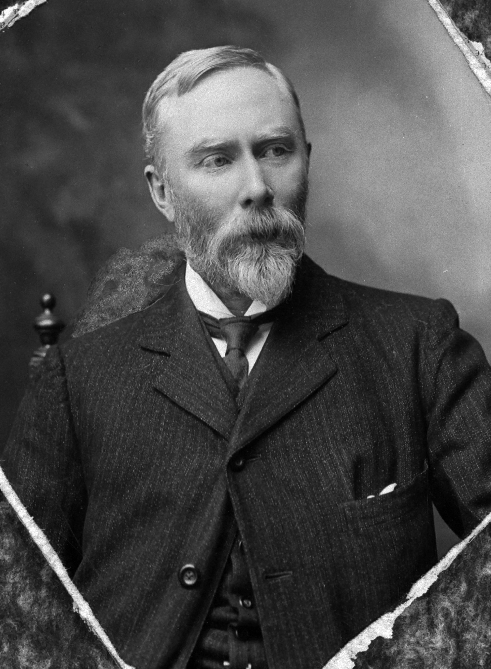 Head and shoulders portrait of Henry Francis Wigram. Photograph taken in 1903 when he sat on the Legislative Council.